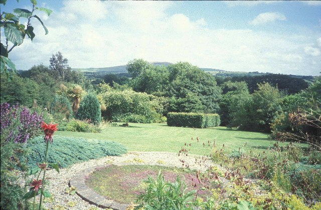 Bro Meigan Gardens. looking south, camomile lawn in foreground